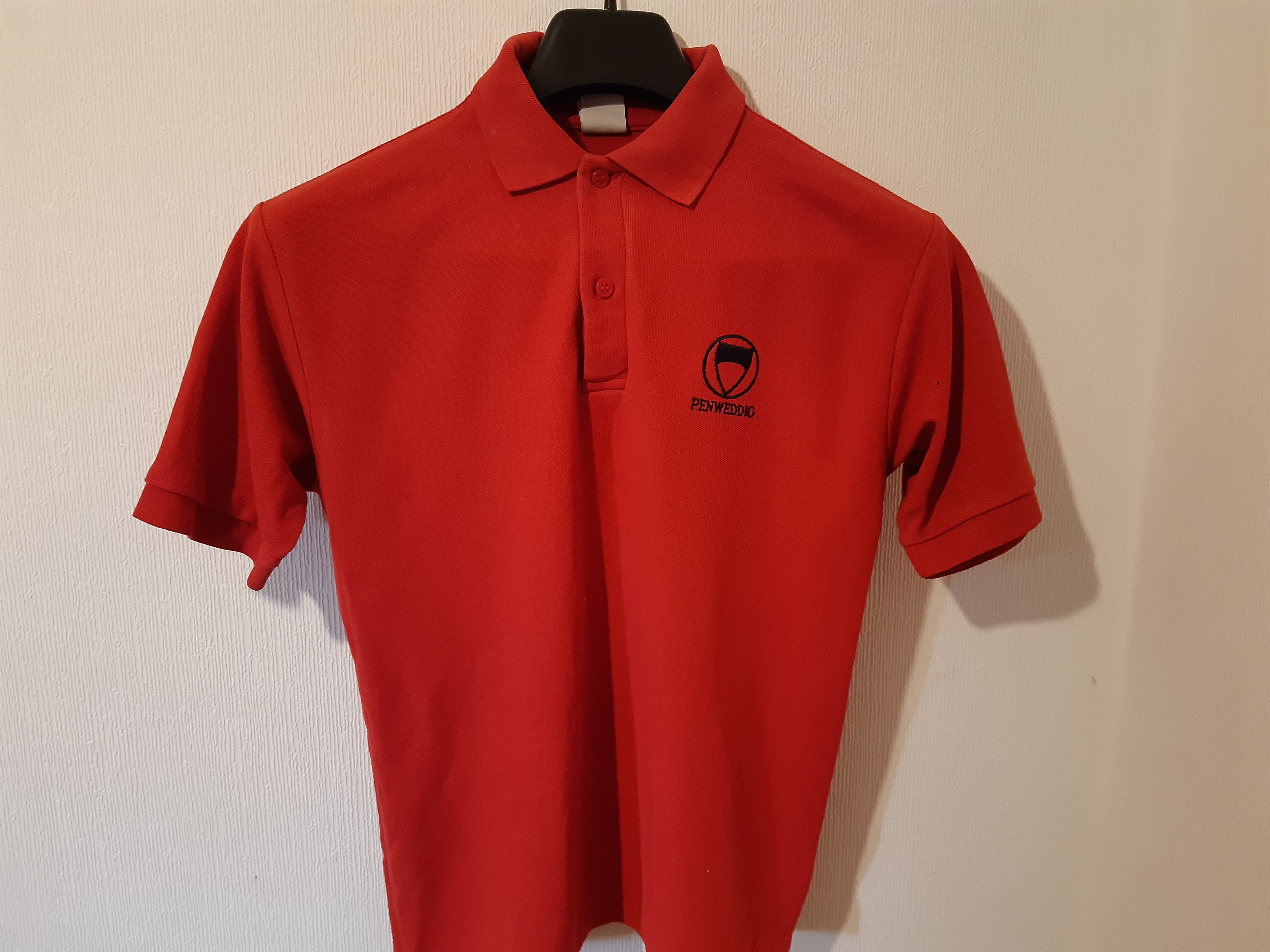 School Polo Shirt (Ysgol Penweddig, Aberystwyth, Wales)